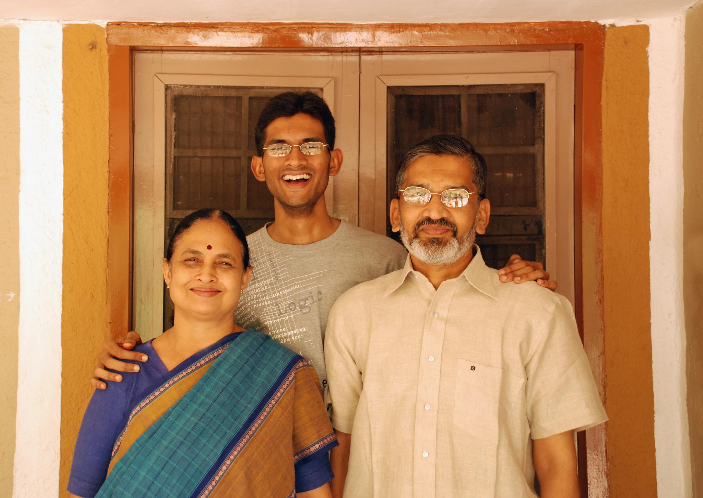 Dr. Abhay Bang and Dr. Rani Bang along with their younger son Amrut at SEARCH, Gadchiroli